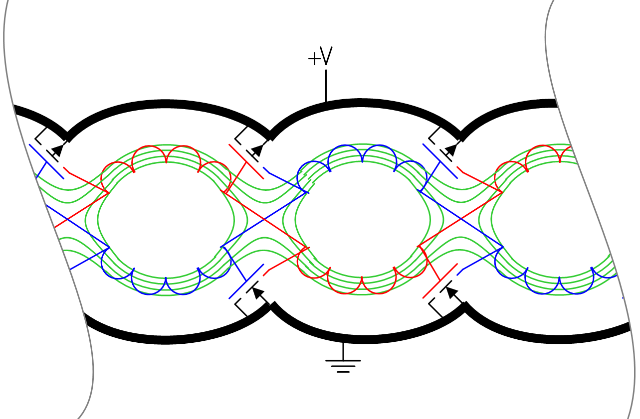 CMOS traveling wave oscillator 2006-01-19 Adapted from CMOS logic traveling wave CMOS traveling wave nFET cascode or similar